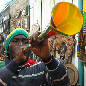 A South African fan in Johannesburgduring the 2010 FIFA World Cup in South Africa.